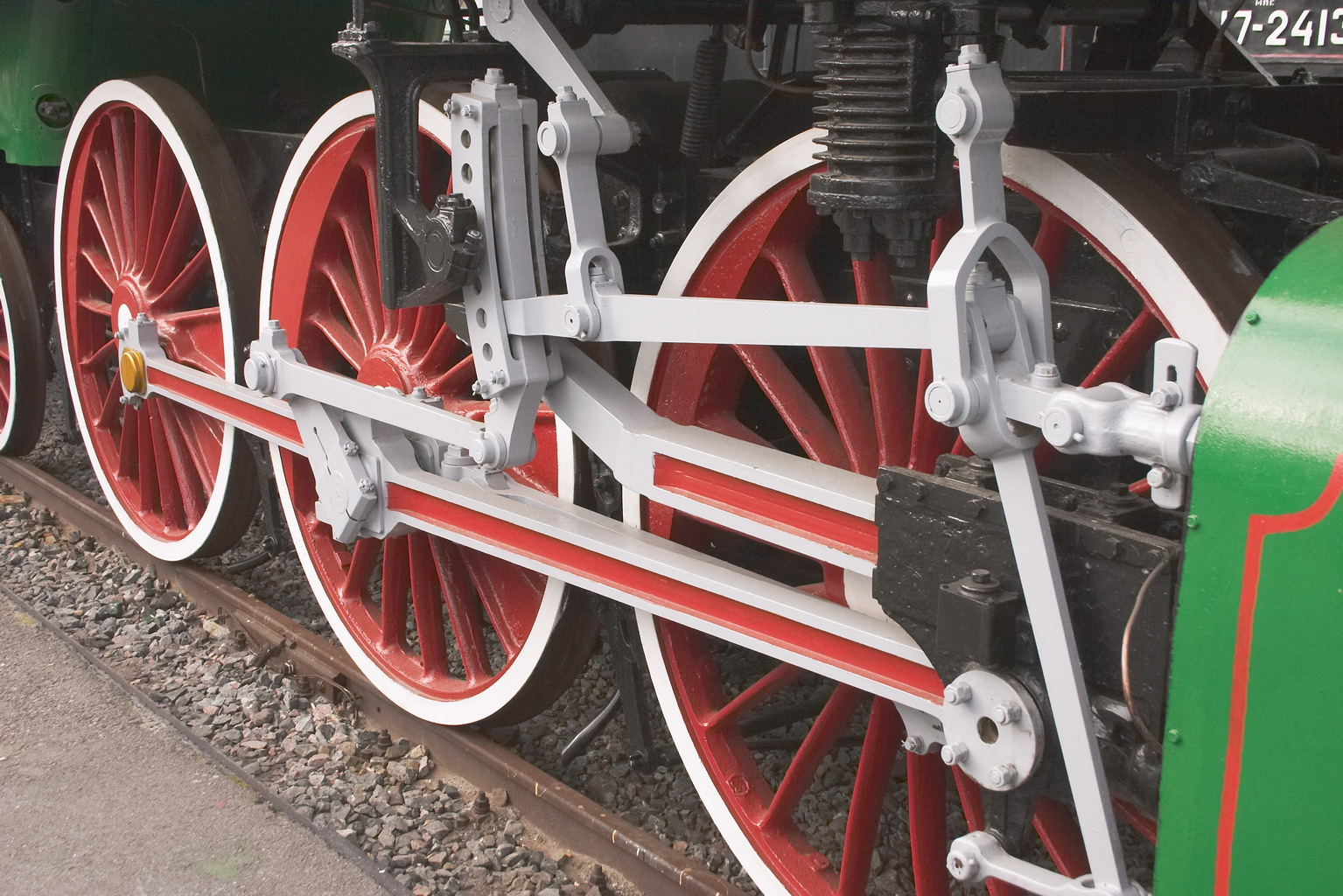 Steam locomotive S, valve geat front view